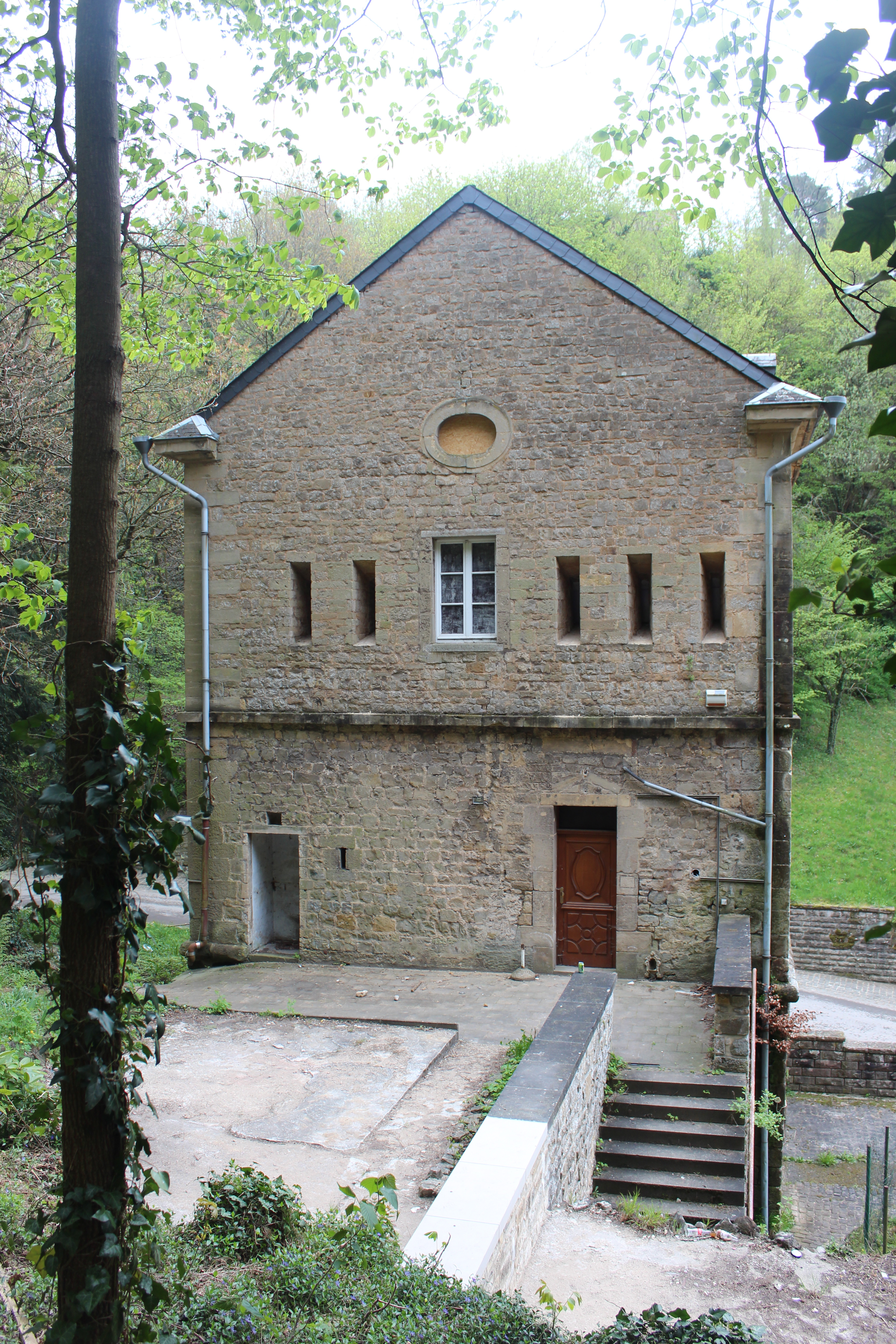 Porte du Grünewald, former gate of the fortress of Luxembourg city (side view)